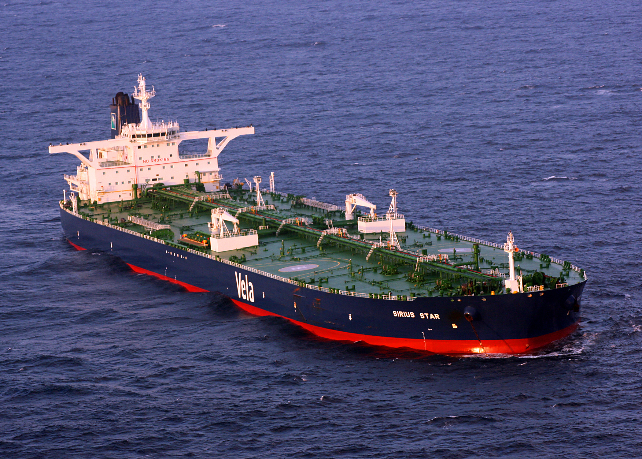 The Liberian-flagged oil tanker MV Sirius Star is at anchor Wednesday, Nov. 19, 2008 off the coast of Somalia. The Saudi-owned very large crude carrier was hijacked by Somali pirates Nov. 15 about 450 nautical miles off the coast of Kenya and forced to proceed to anchorage near Harardhere, Somalia. 081119-N-0075S-003 Indian Ocean.